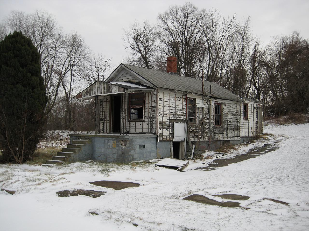 A delapitated house in Youngstown, Ohio, United States.